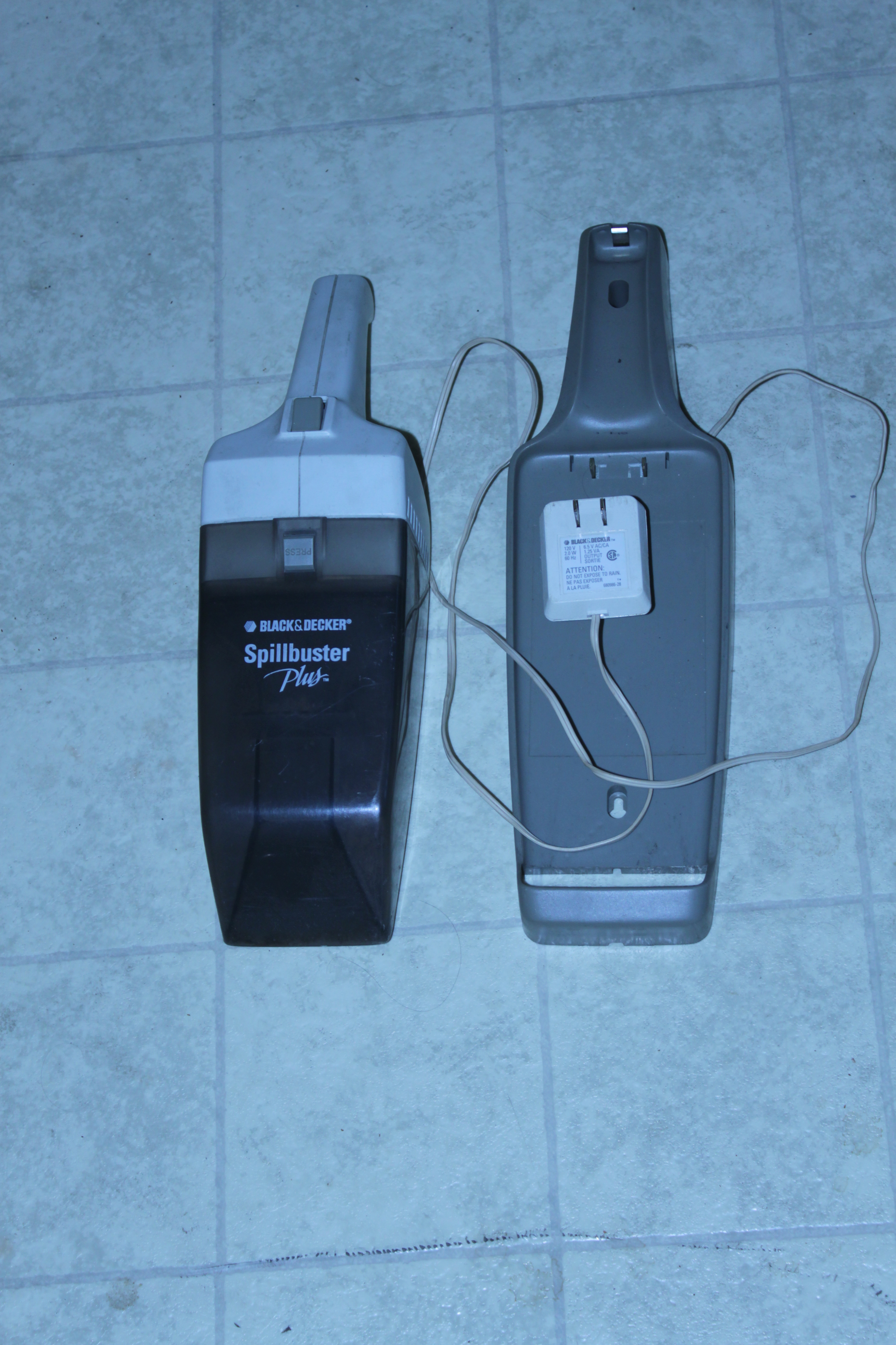 Black and Decker Spillbuster. Bought new in Alberta in 1998.